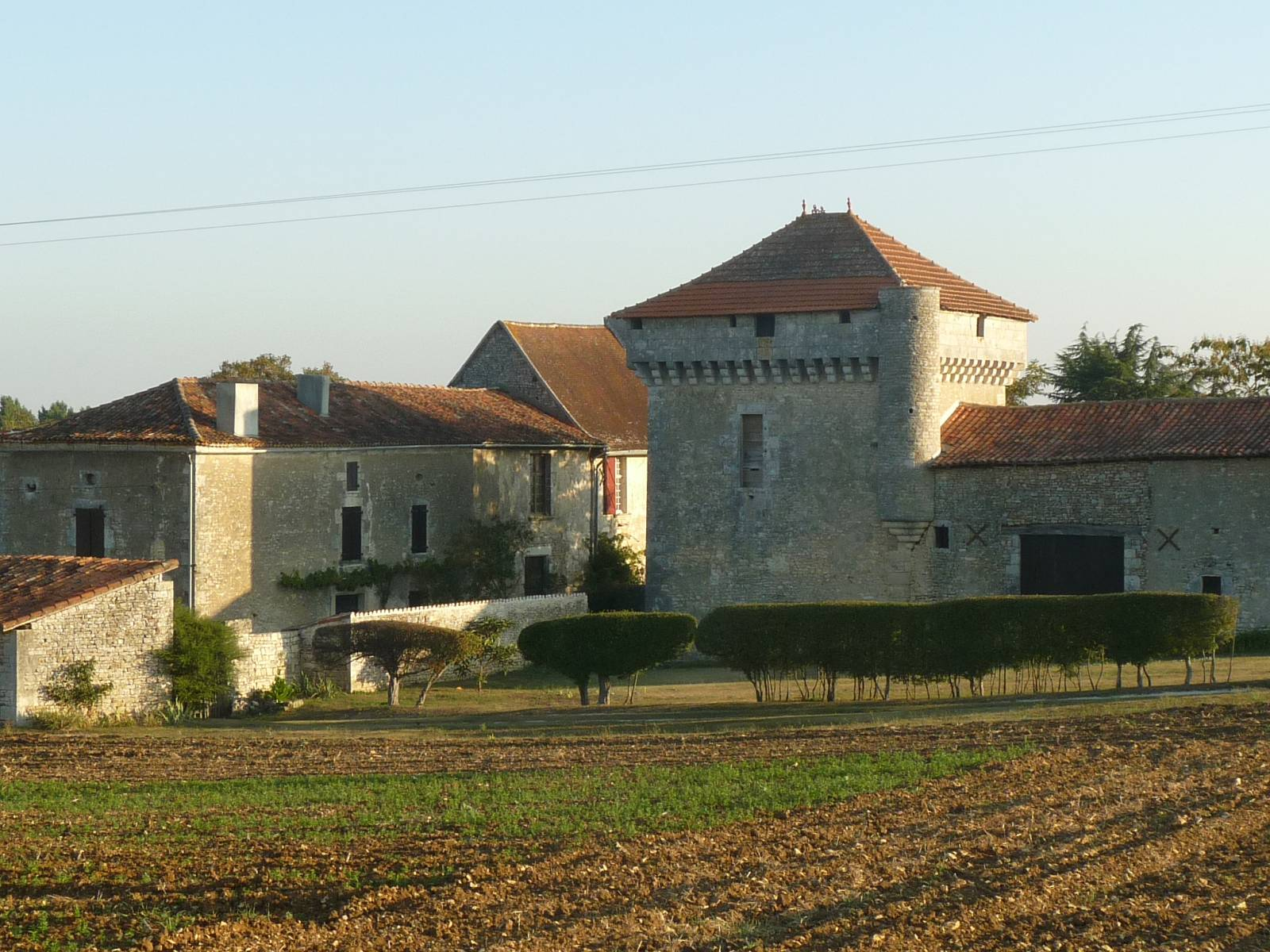 castle